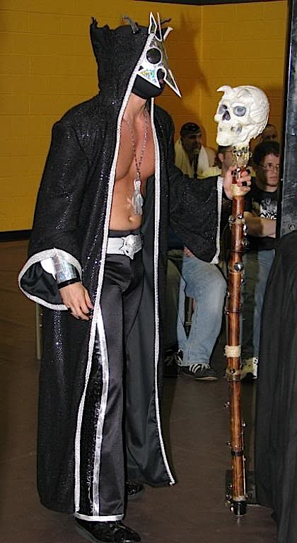 Photo of UltraMantis Black taken at ringside of Aniversario Yin